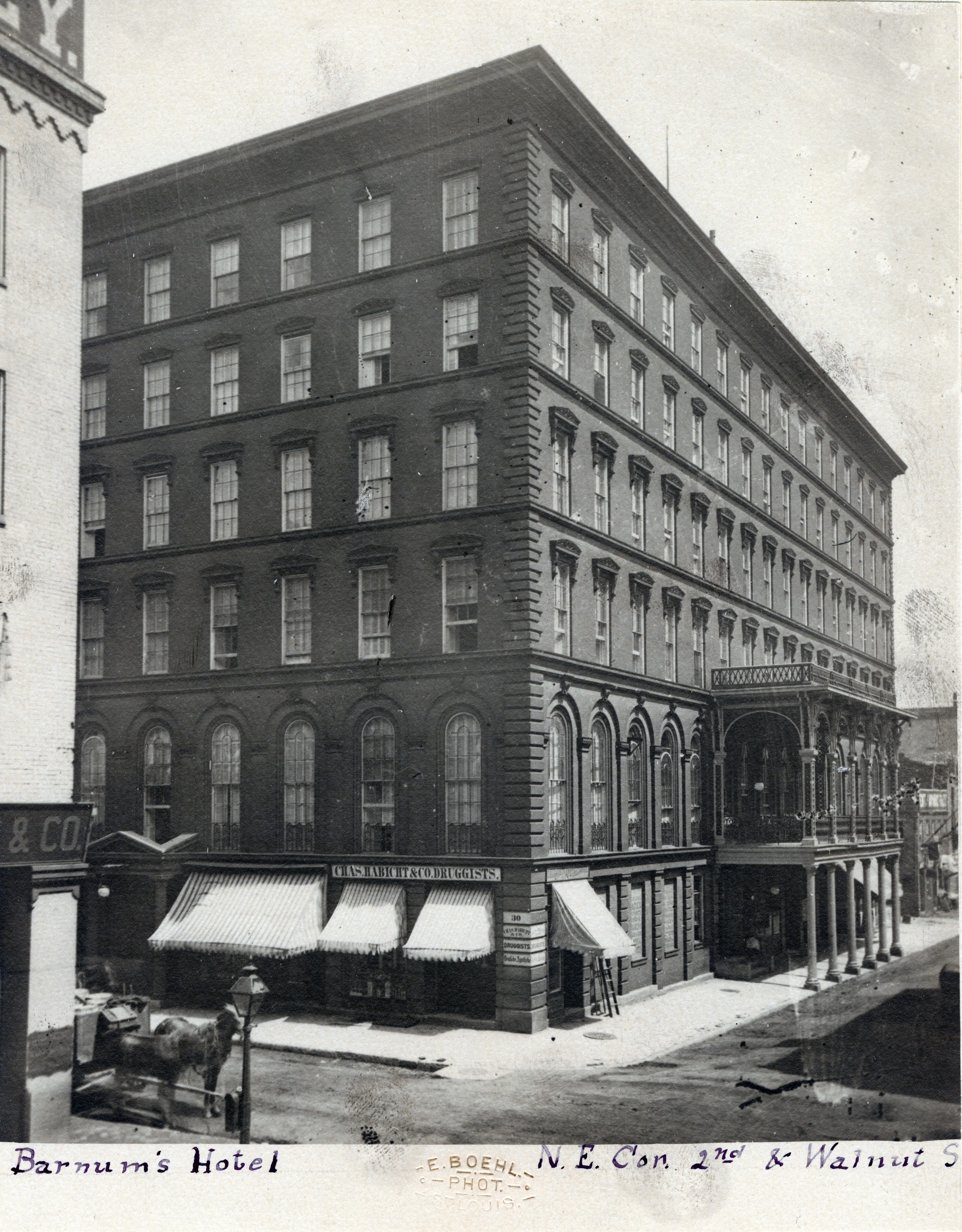 Barnum's Hotel. Second Street and Walnut Street, norhteast corner. Photograph by Emil Boehl, ca. 1870. Missouri Historical Society Photographs and Prints Collections. PB 0864. Scan © 2007, Missouri Historical Society.